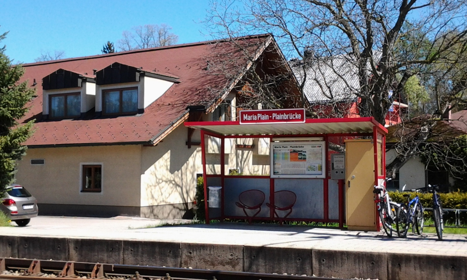 Train stop Maria Plain – Plainbrücke in the city of Salzburg, Austria, on the local railway line Salzburg–Lamprechtshausen